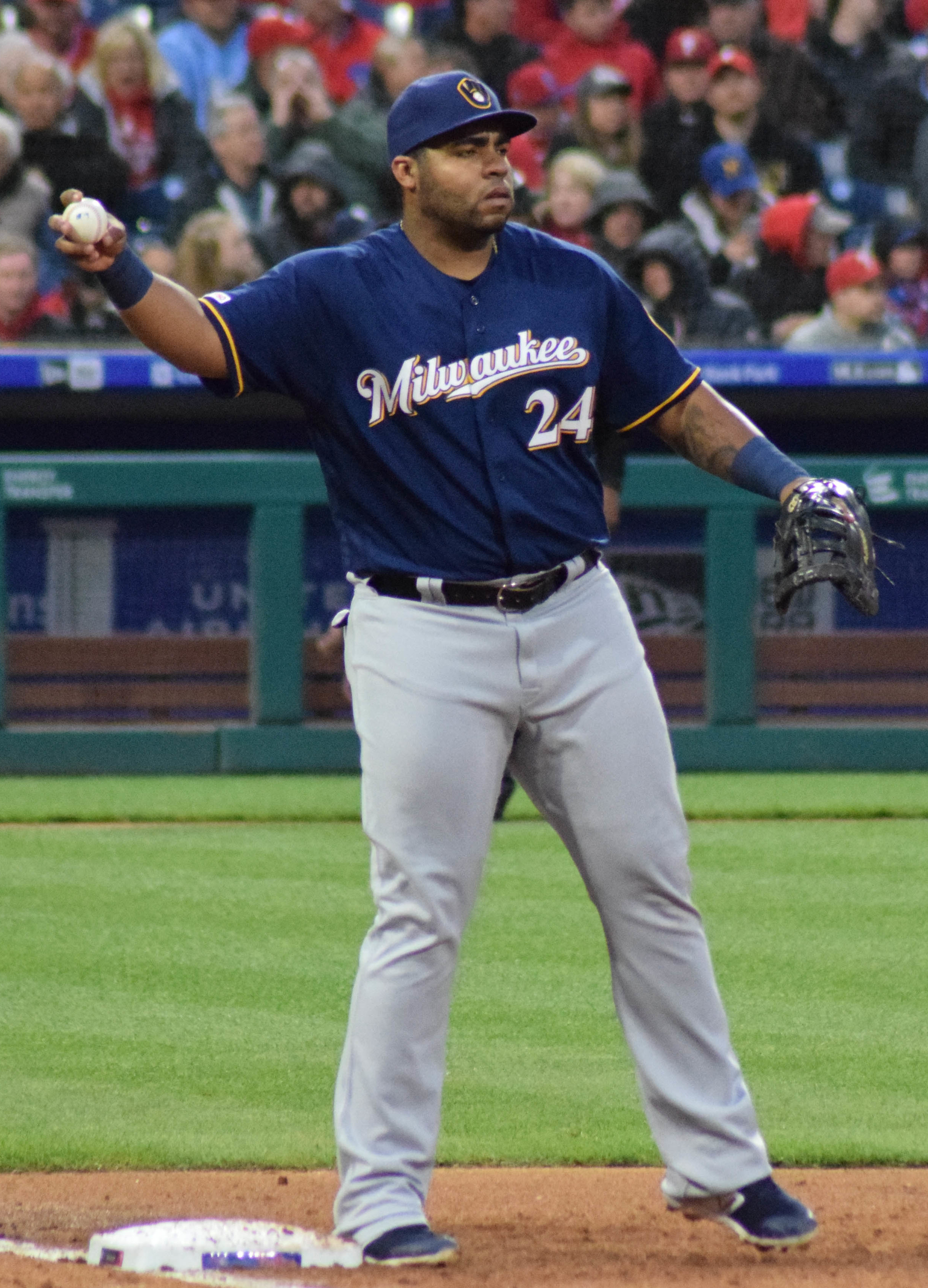 Jesus Aguilar of the Milwaukee Brewers during a 2019 game at Citizens Bank Park in Philadlephia